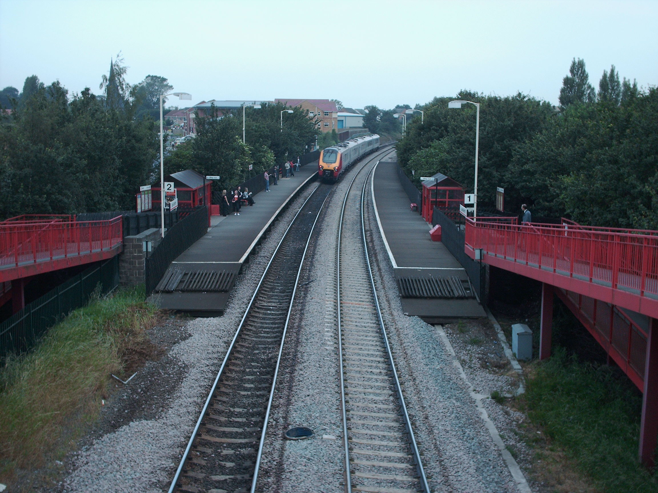 East Garforth train station, West Yorkshire. A Virgin Trains Voyager rushes through on its way to Leeds.